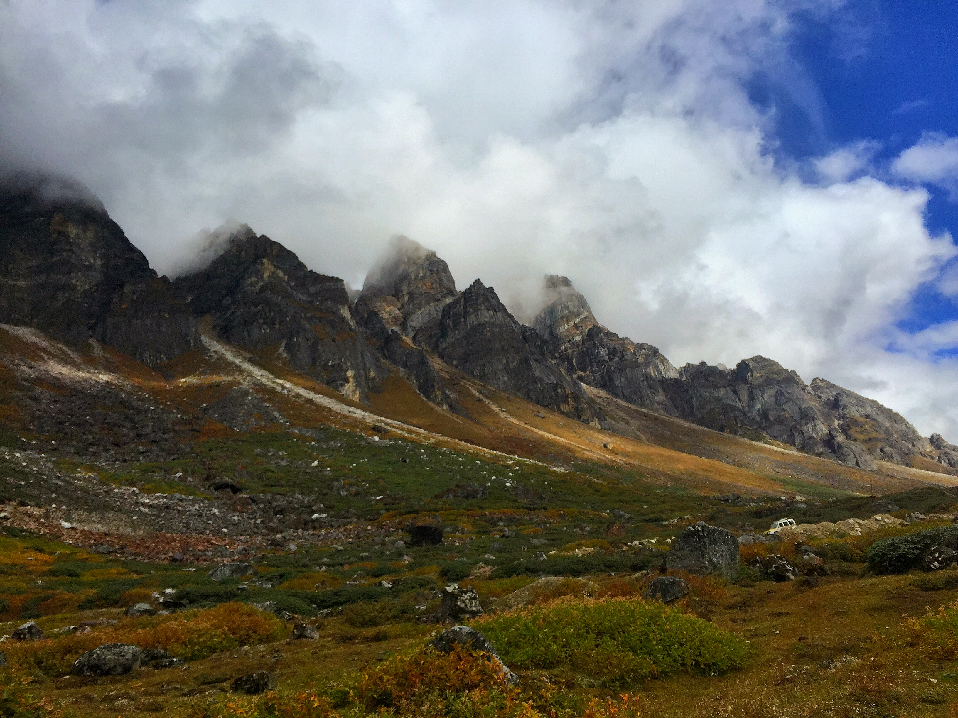 At about 5000m high, the lands start to rise creating the youngest mountains - The Himalayas. As read in the Geography books at school - " The Indian subcontinent meets the Asian land". Observing the flora and dauna in these areas feels like one is be forever young.